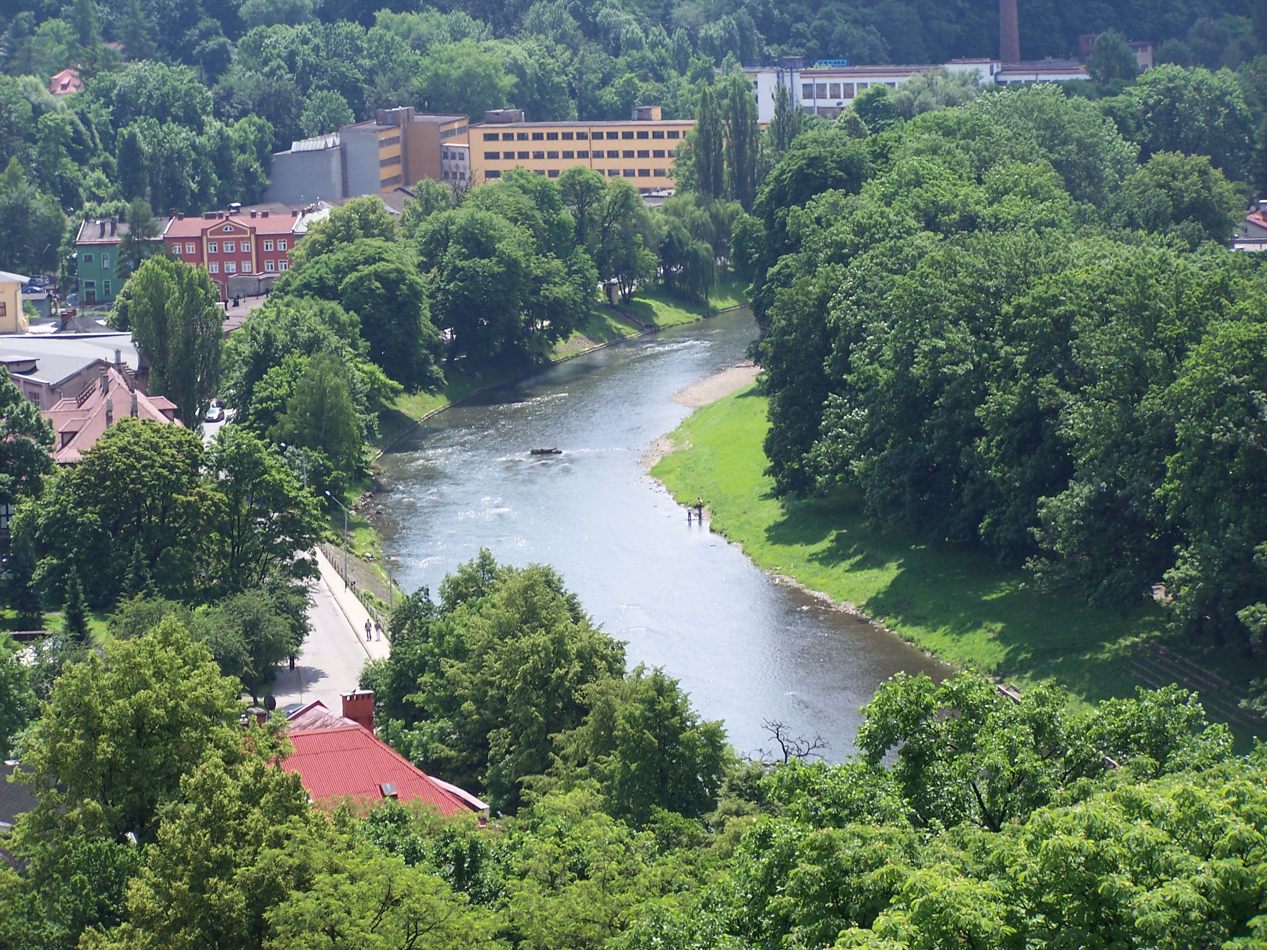 Olza River flowing through Cieszyn, Poland and Český Těšín, Czech Republic